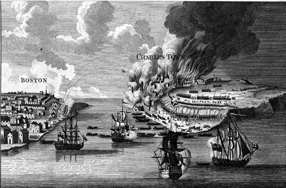 "View of the Attack on Bunker's Hill with the Burning of Charlestown" (American Revolution)